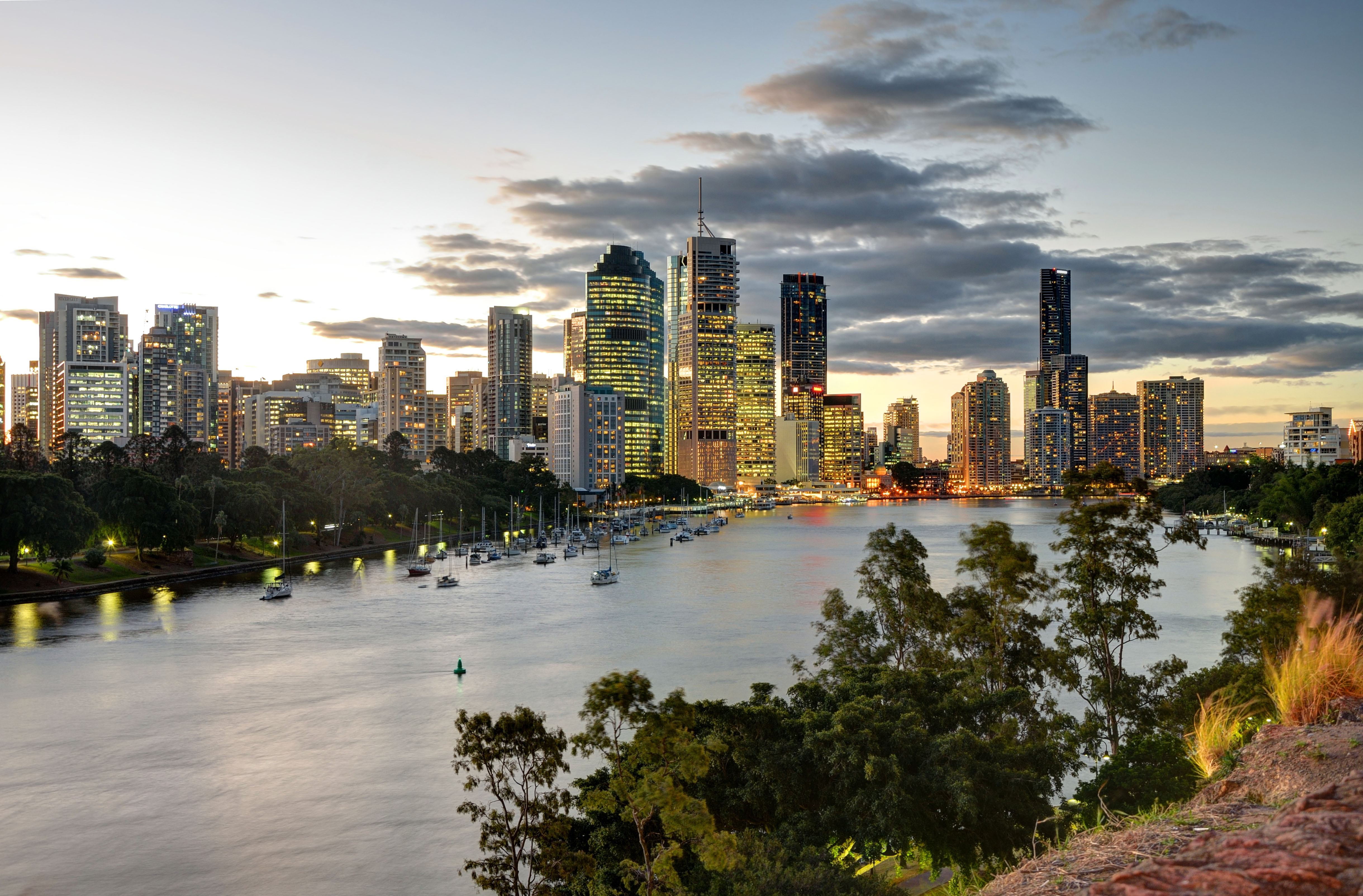 Brisbane's skyline, as seen from Kangaroo Point, May 2013.